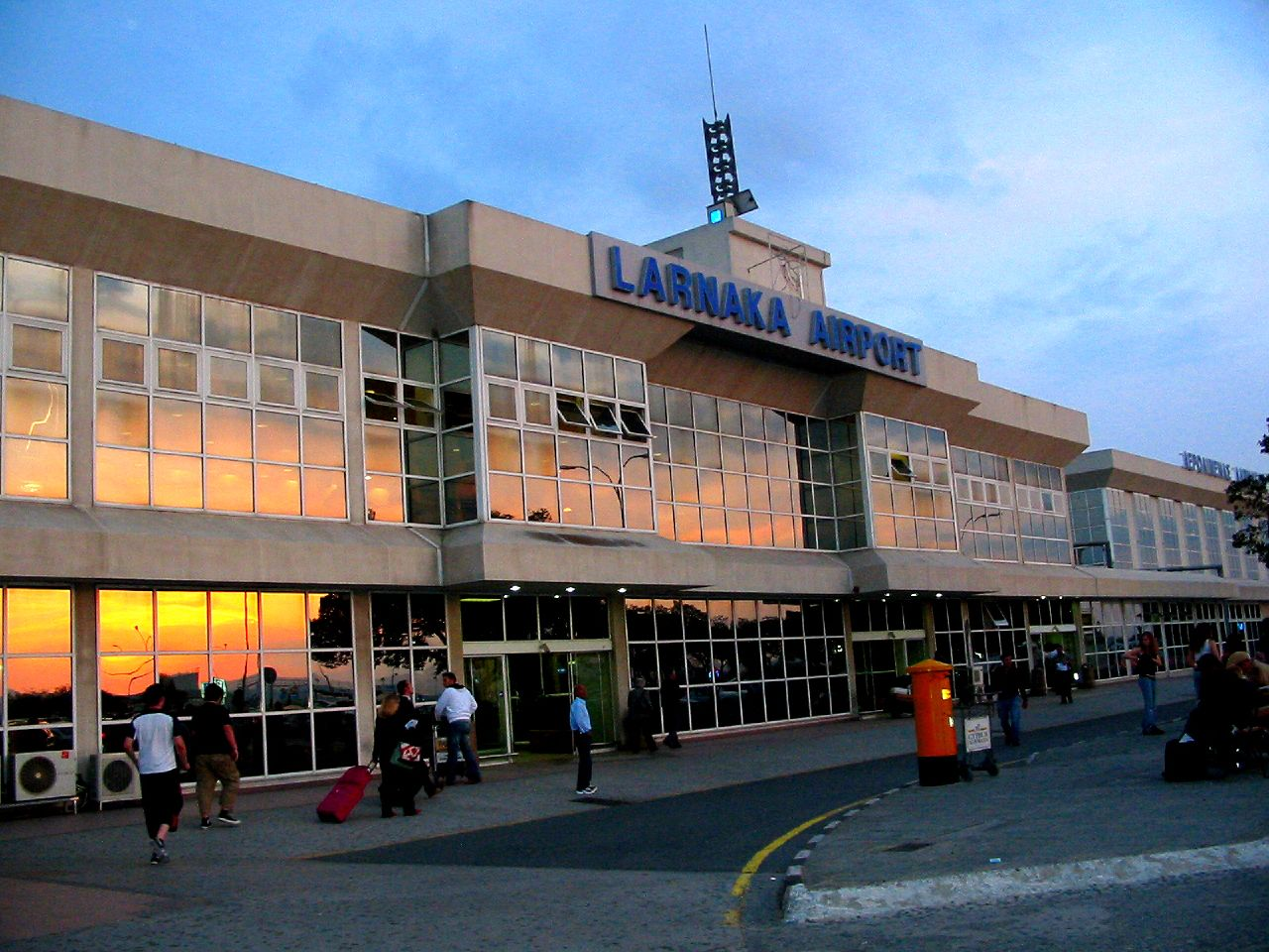 Larnaca International Airport, a hub for tourists travelling between Europe and Asia.